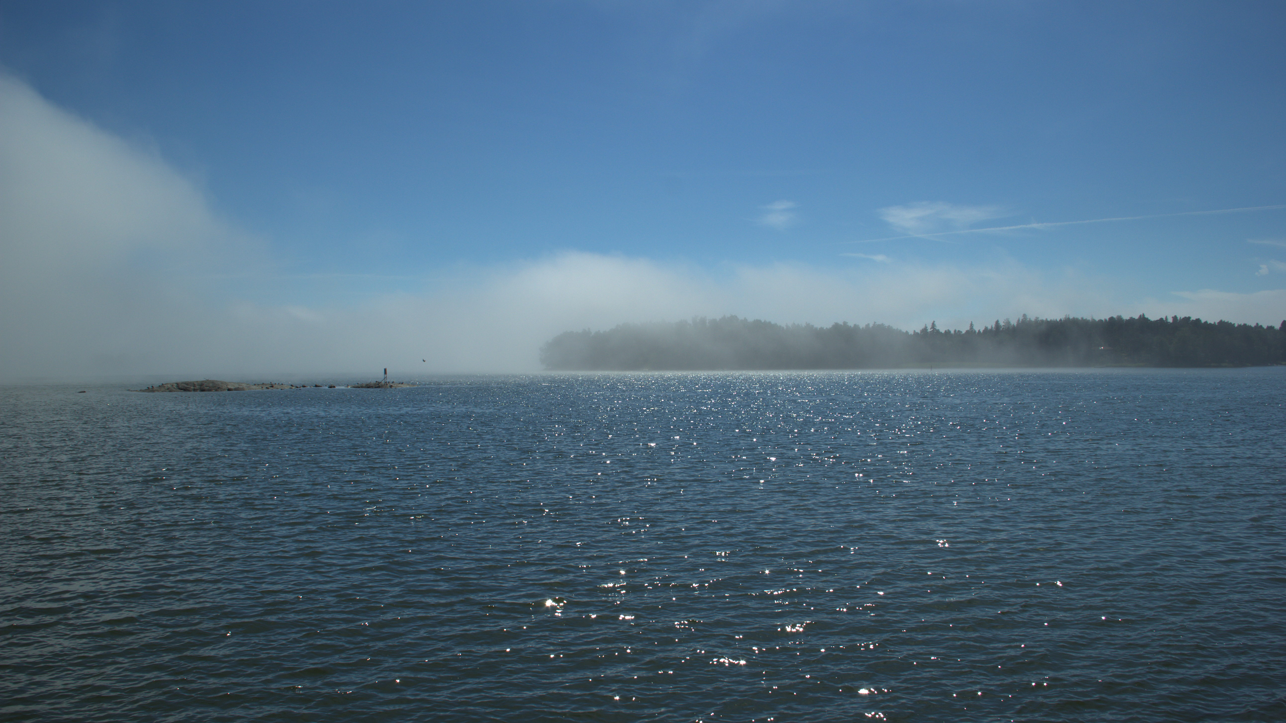 Advection fog over the sea, Aurinkolahti, Helsinki